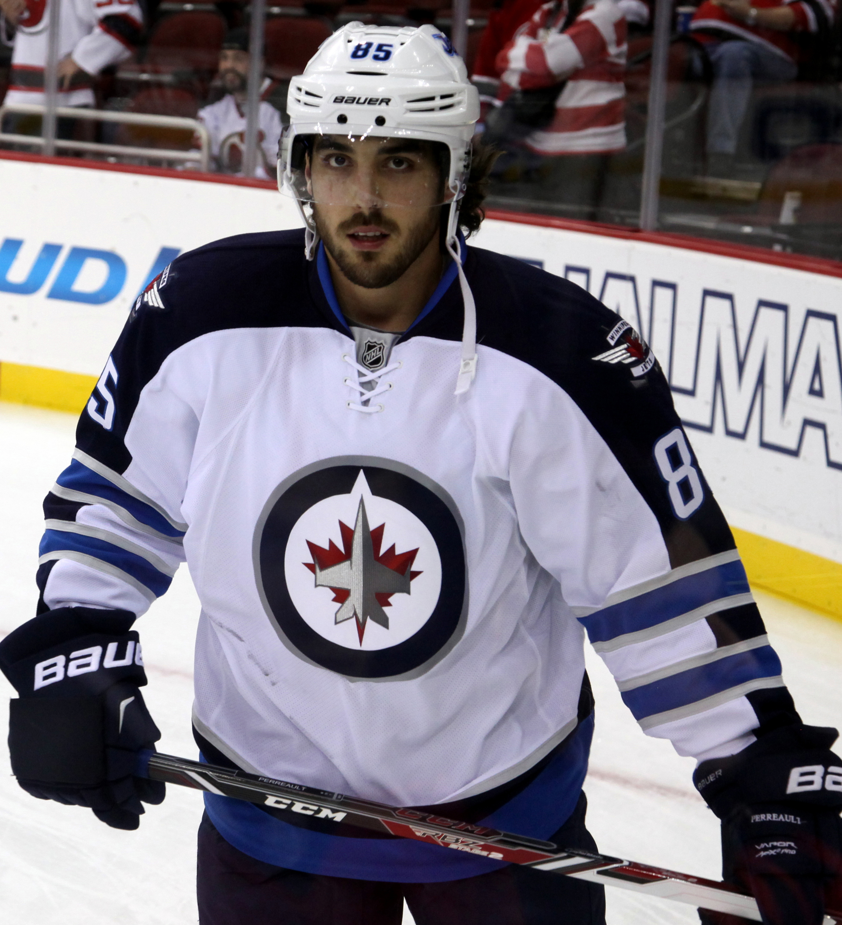 Perreault in October 2014.